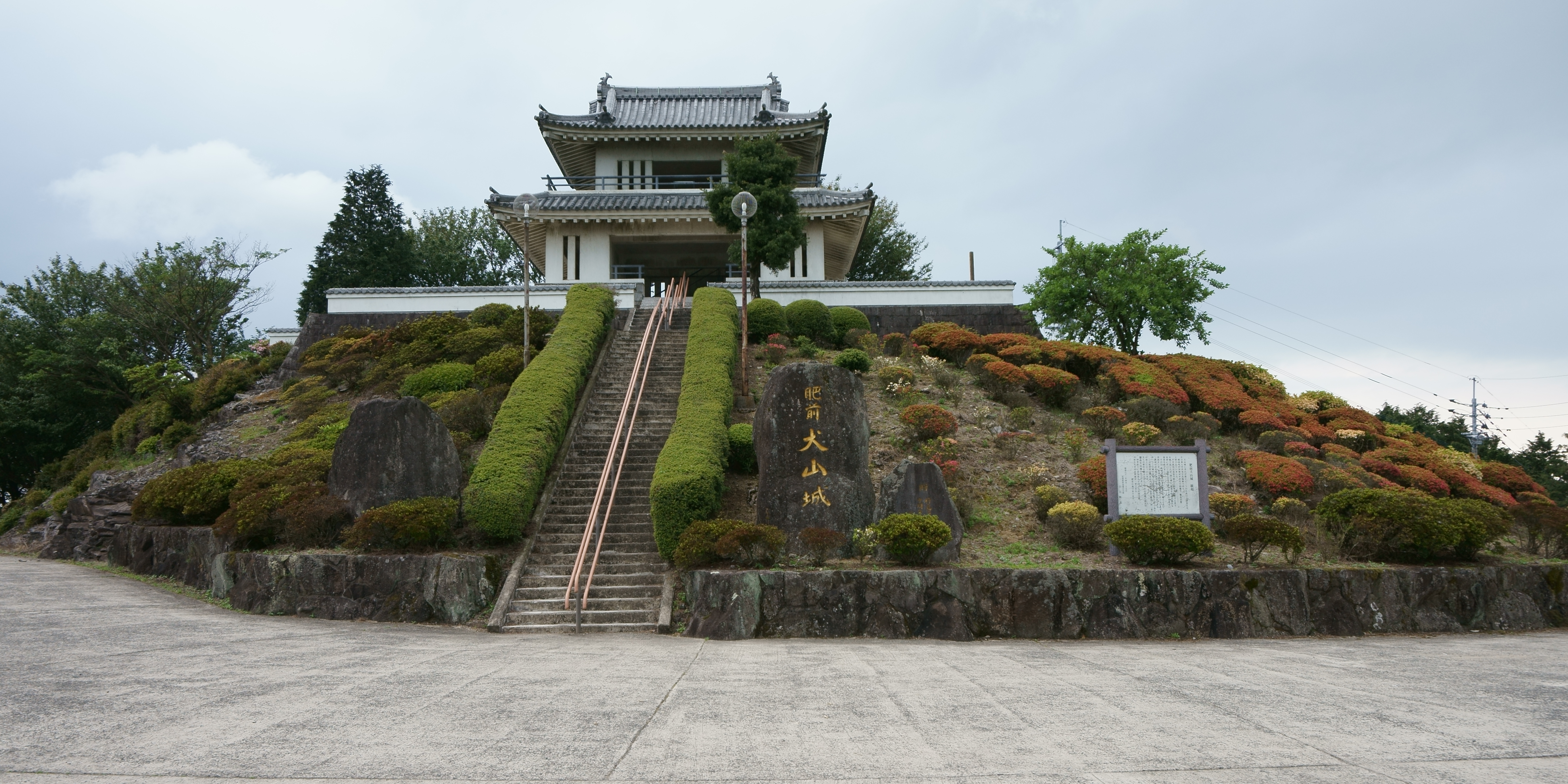 Hizen Inuyama Castle observation platform in Shiroishi town, Saga prefecture.